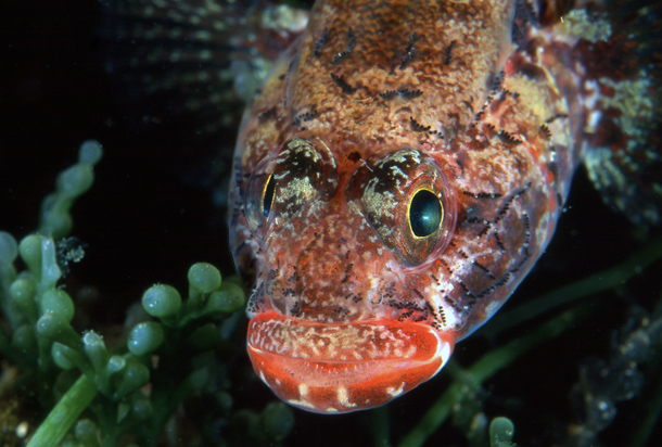 Gobius cruentatus, Tuscany, Italy. Photo by Stefano Guerrieri